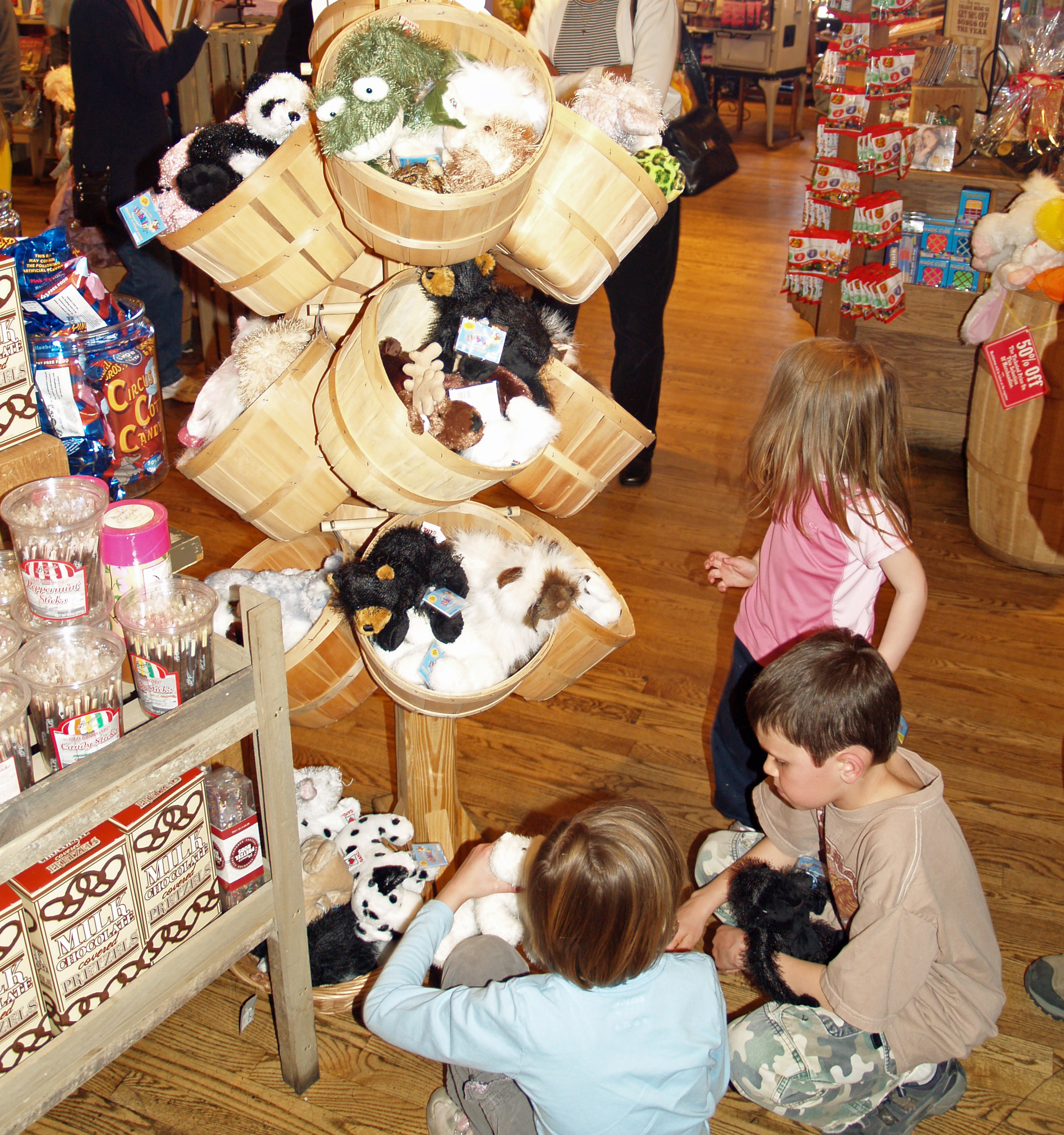 Kids looking through bins of Webkinz at a Cracker Barrel in Pueblo, Colorado, USA.